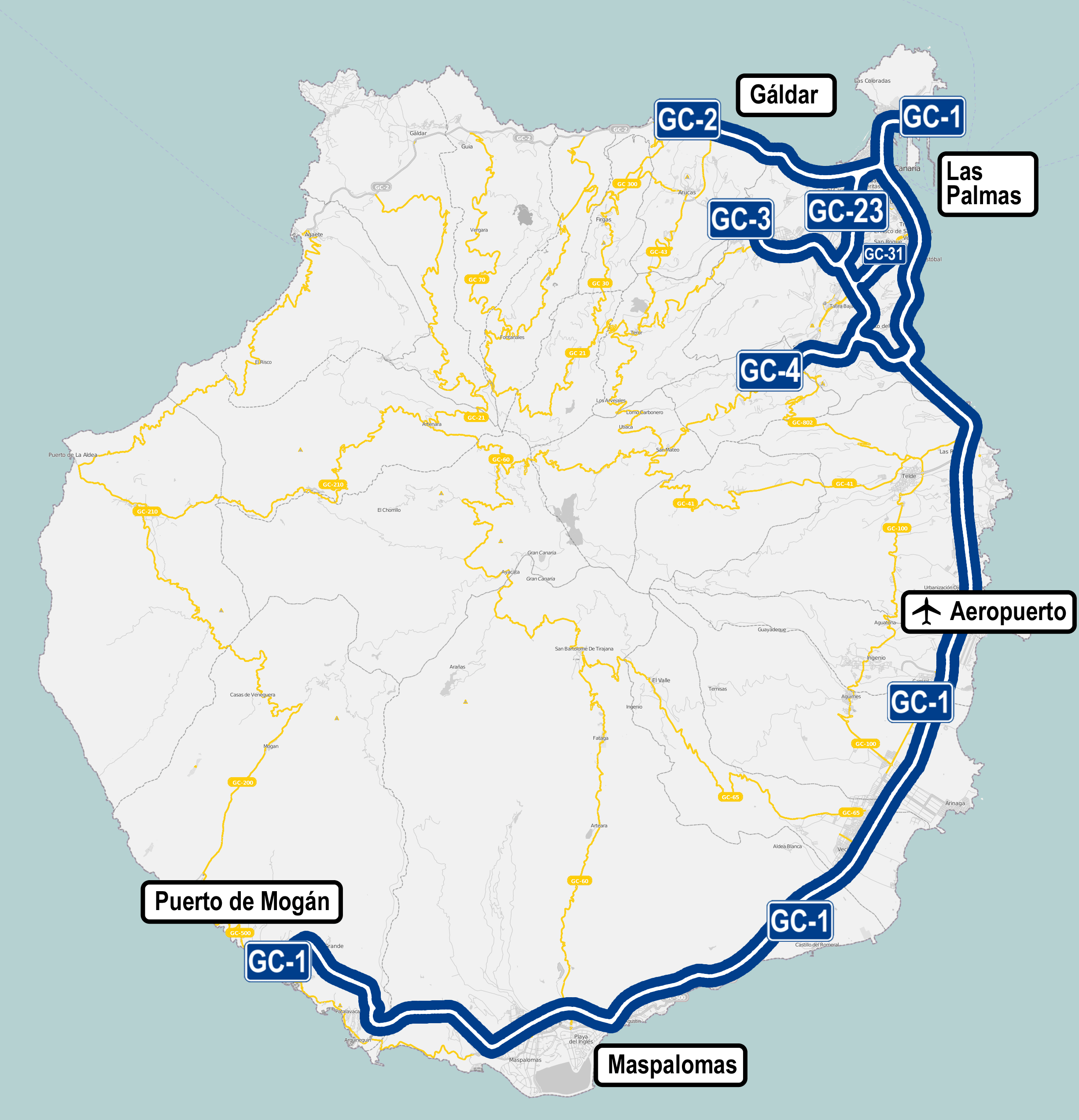 Outline map of the autopistas (motorways) of Gran Canarai, GC1, GC2, GC3 and GC4 This map may be incomplete, and may contain errors. Don't rely solely on it for navigation.